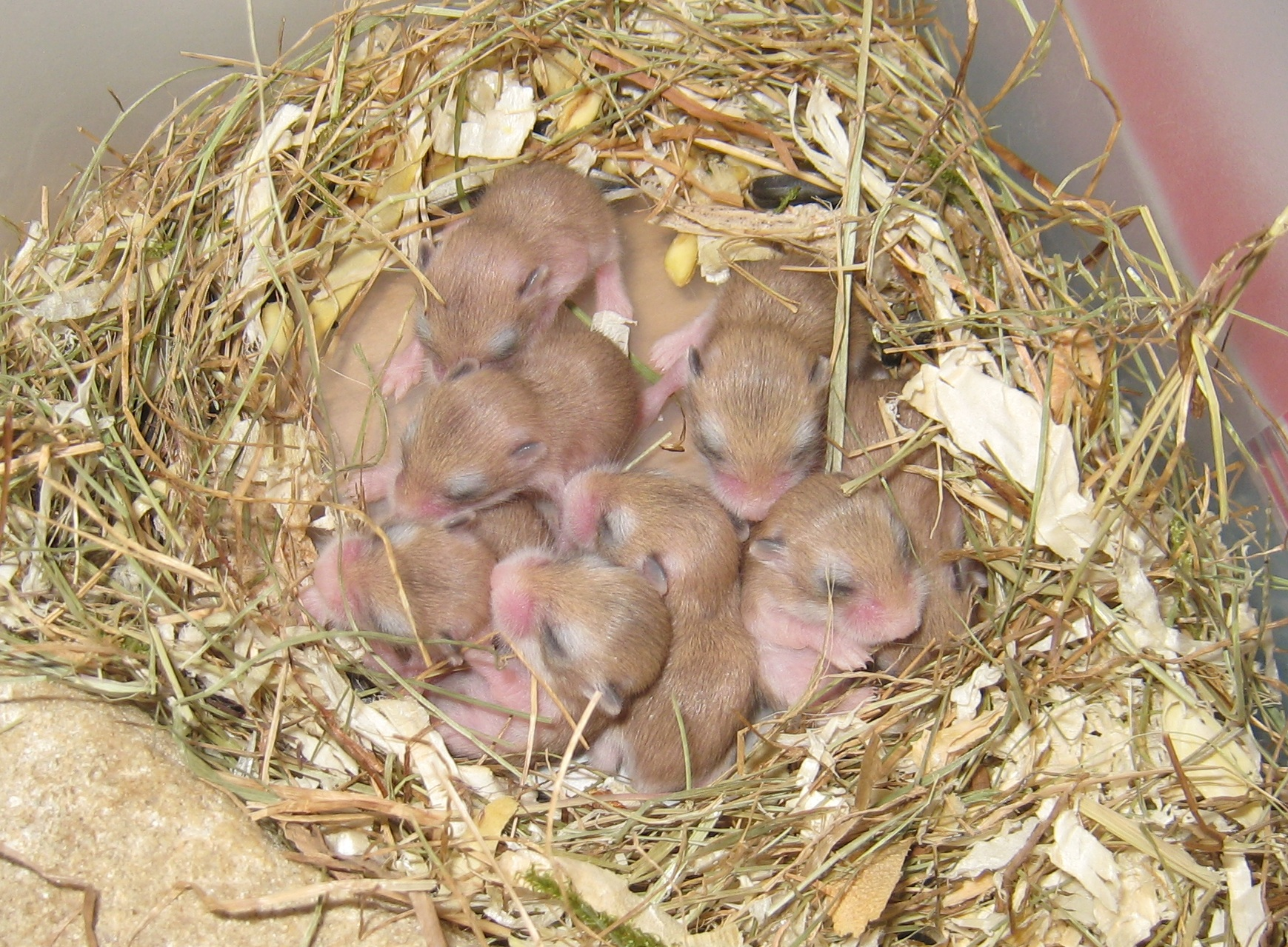 Baby roborovski hamsters aged 15 days